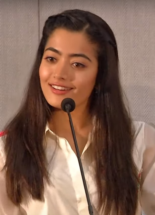 Rashmika Mandanna at Dear Comrade press meet in 2019